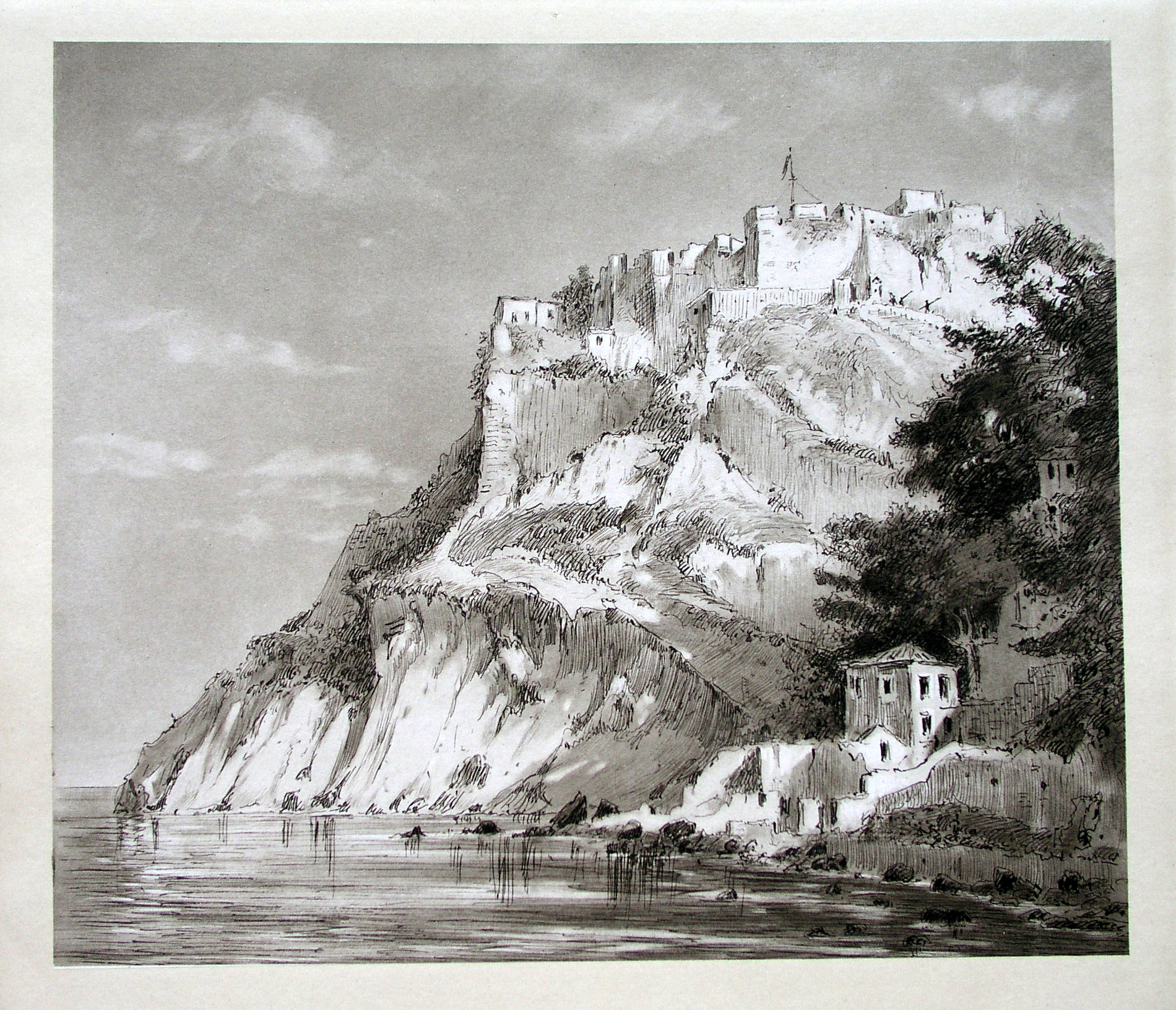 View of the castle of Parga. Lithography of 1907, by Ludwig Salvator of Austria.